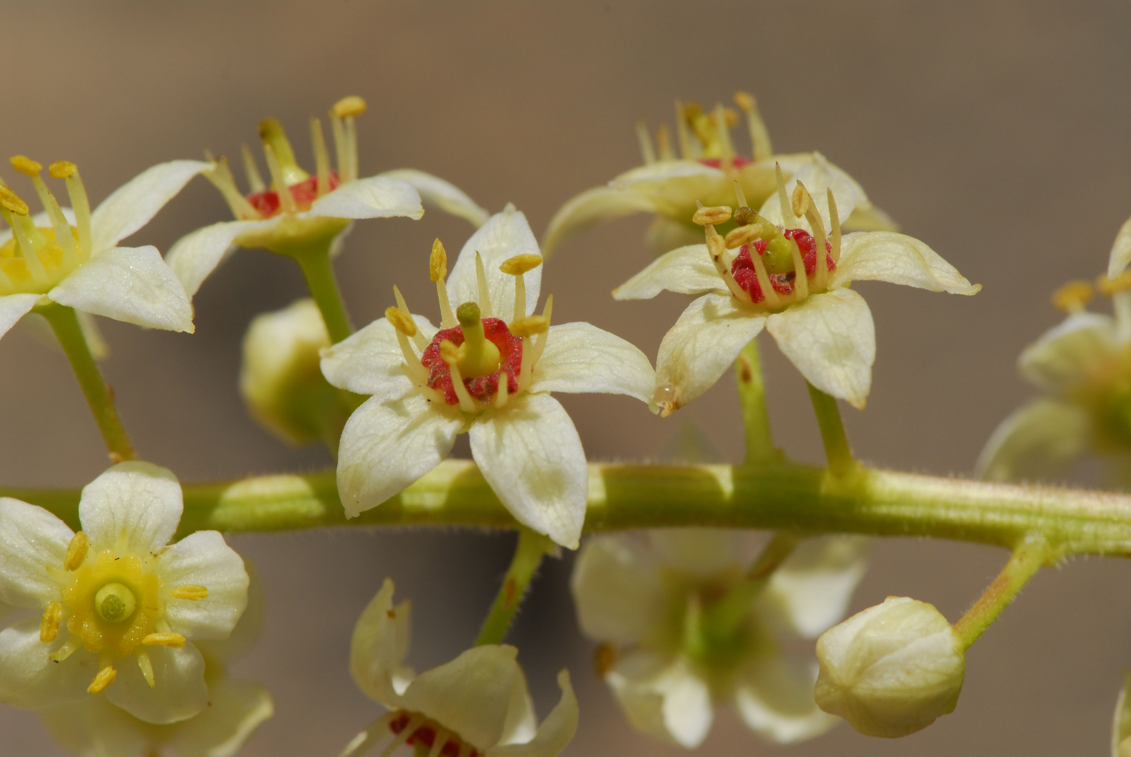 frankincense flowers